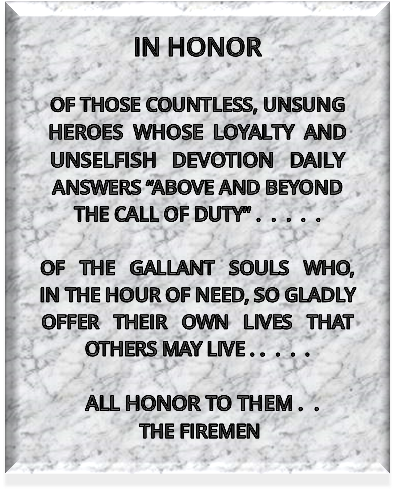 The opening copy of the plaque for the 1922 - The Third Alarm